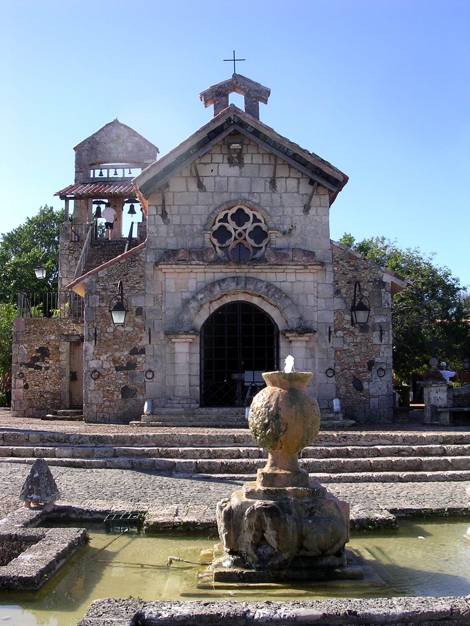 Church at Altos de Chavón